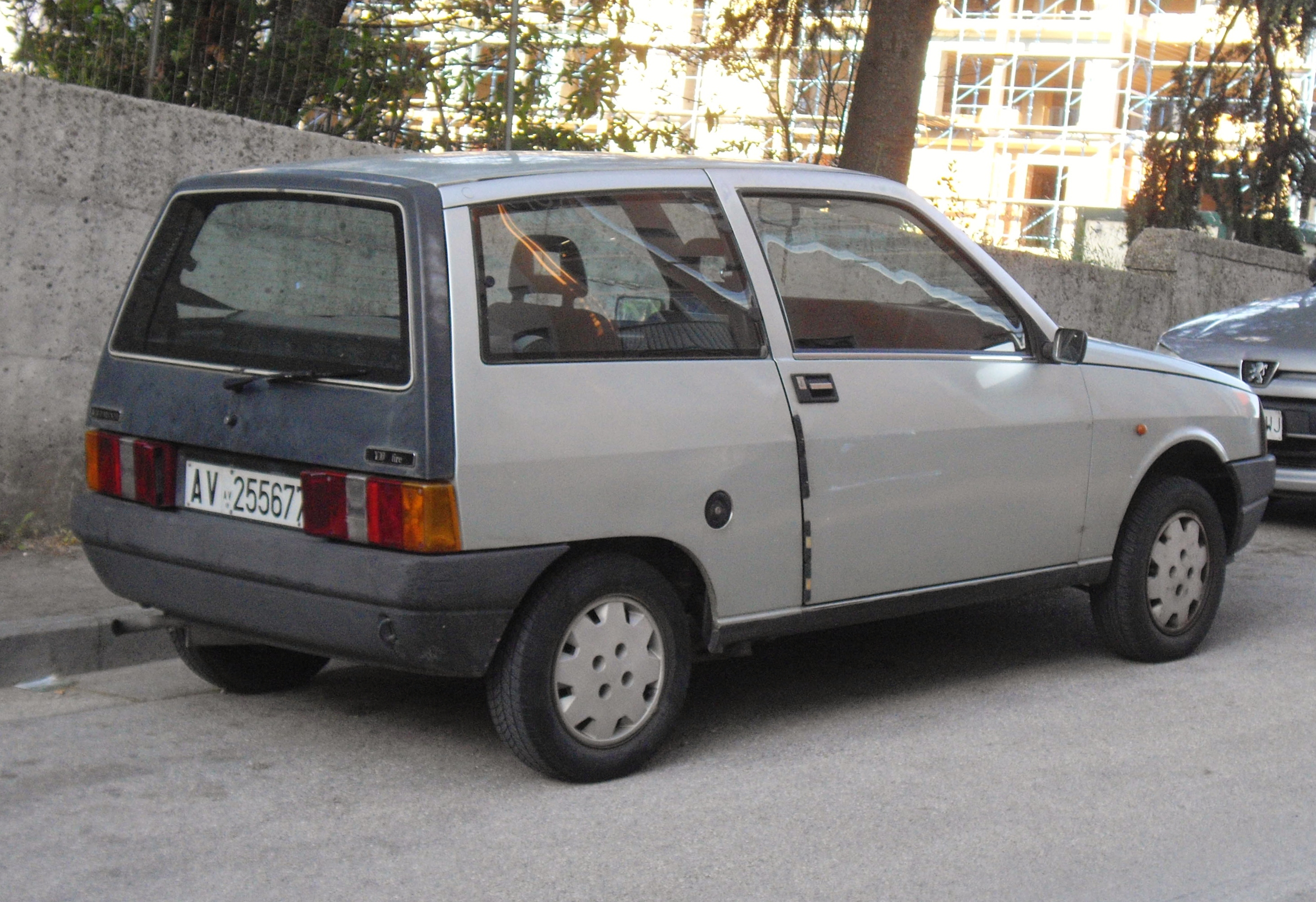 Autobianchi Y10 Fire in Avellino